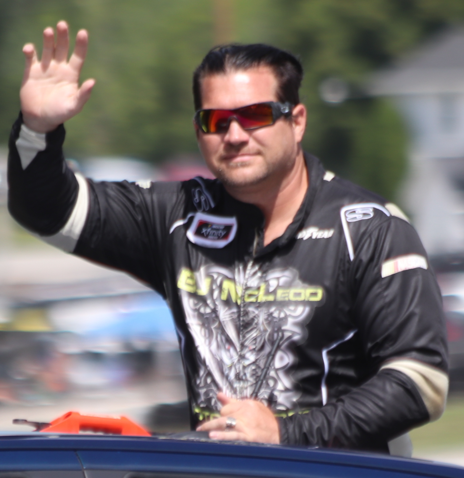 NASCAR driver B.J. McLeod at the 2019 CTECH 180, Road America.